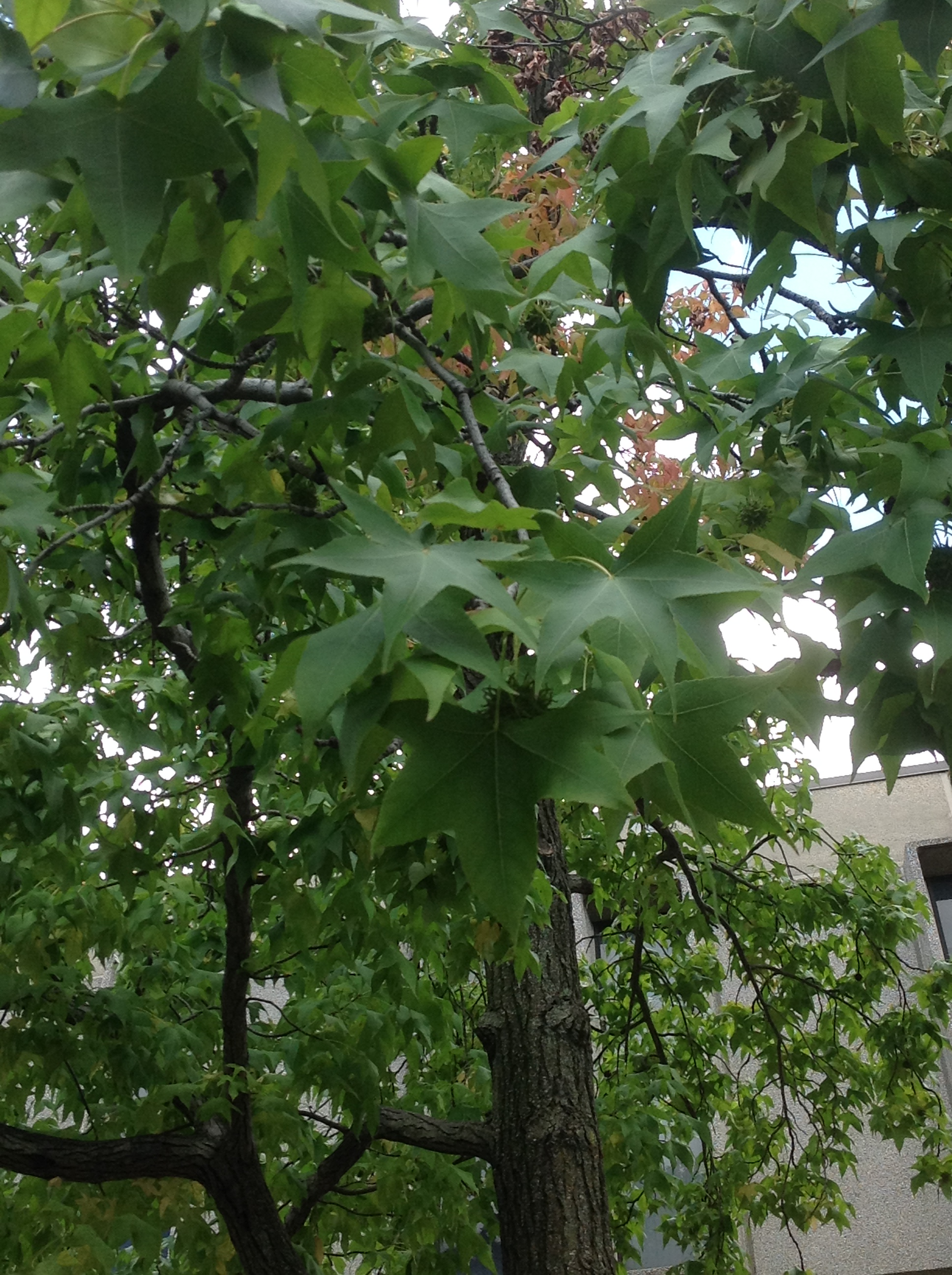 A19-2-Liquidambar styraciflua (American Sweetgum)